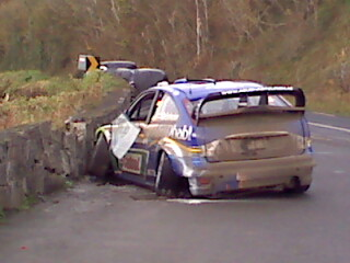 Marcus Grönholm's crashed Ford Focus RS WRC 07 on the SS4 of 2007 Rally Ireland (1st Rally Ireland).